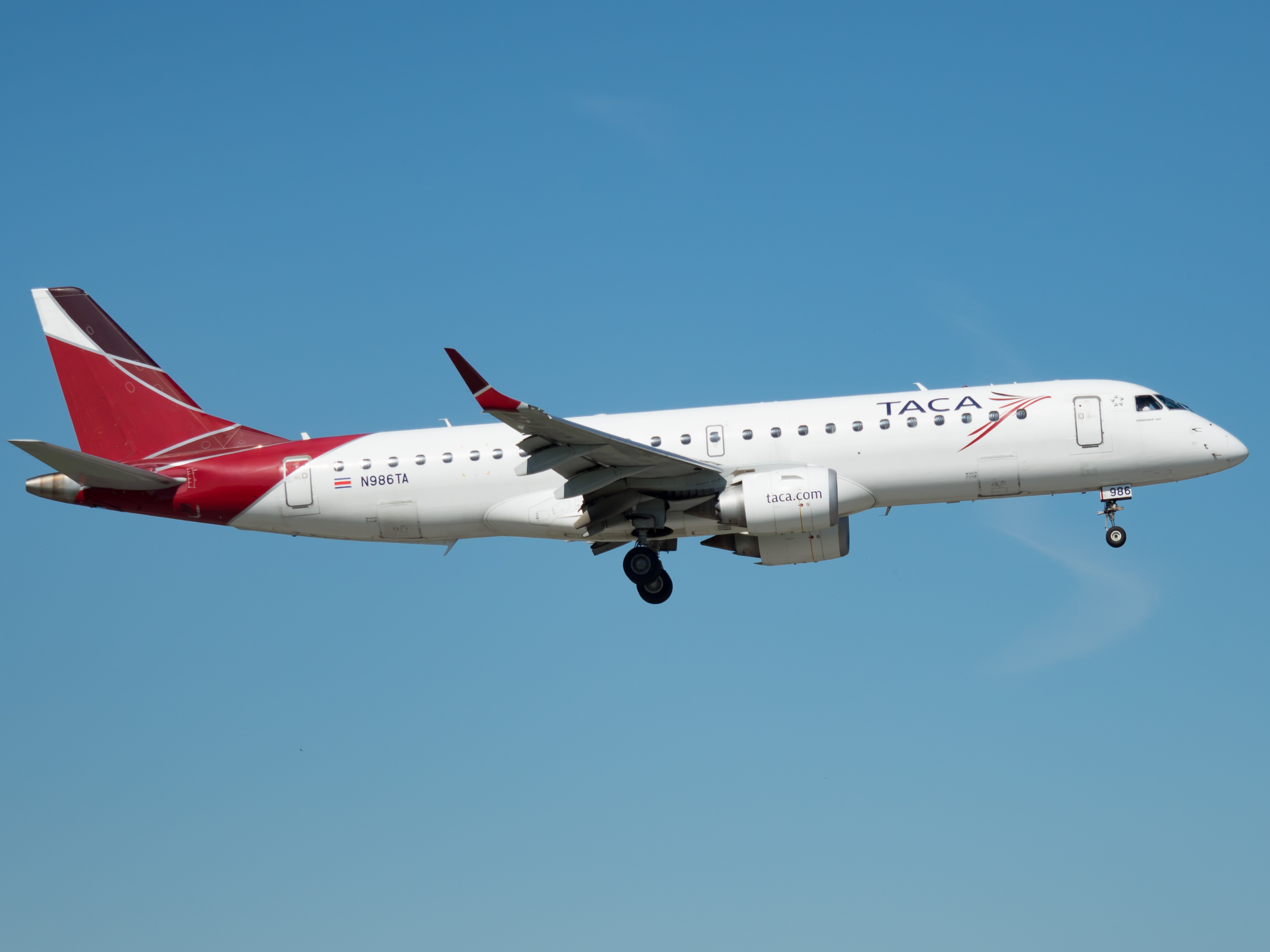 TACA Embraer 190 at Miami International Airport